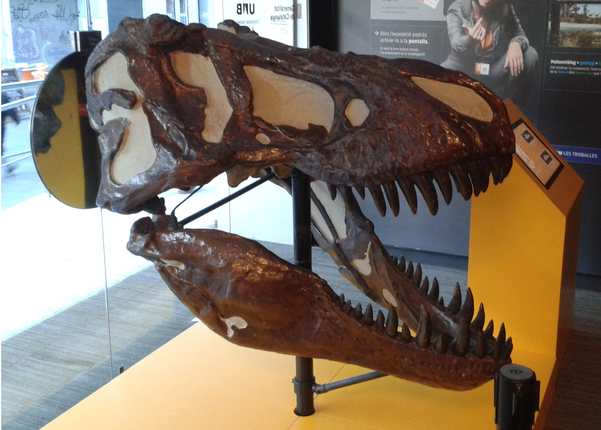 A photograph of the Tyrannosaurus skull kept at the Institut de Paleontologia Miquel Crusafont